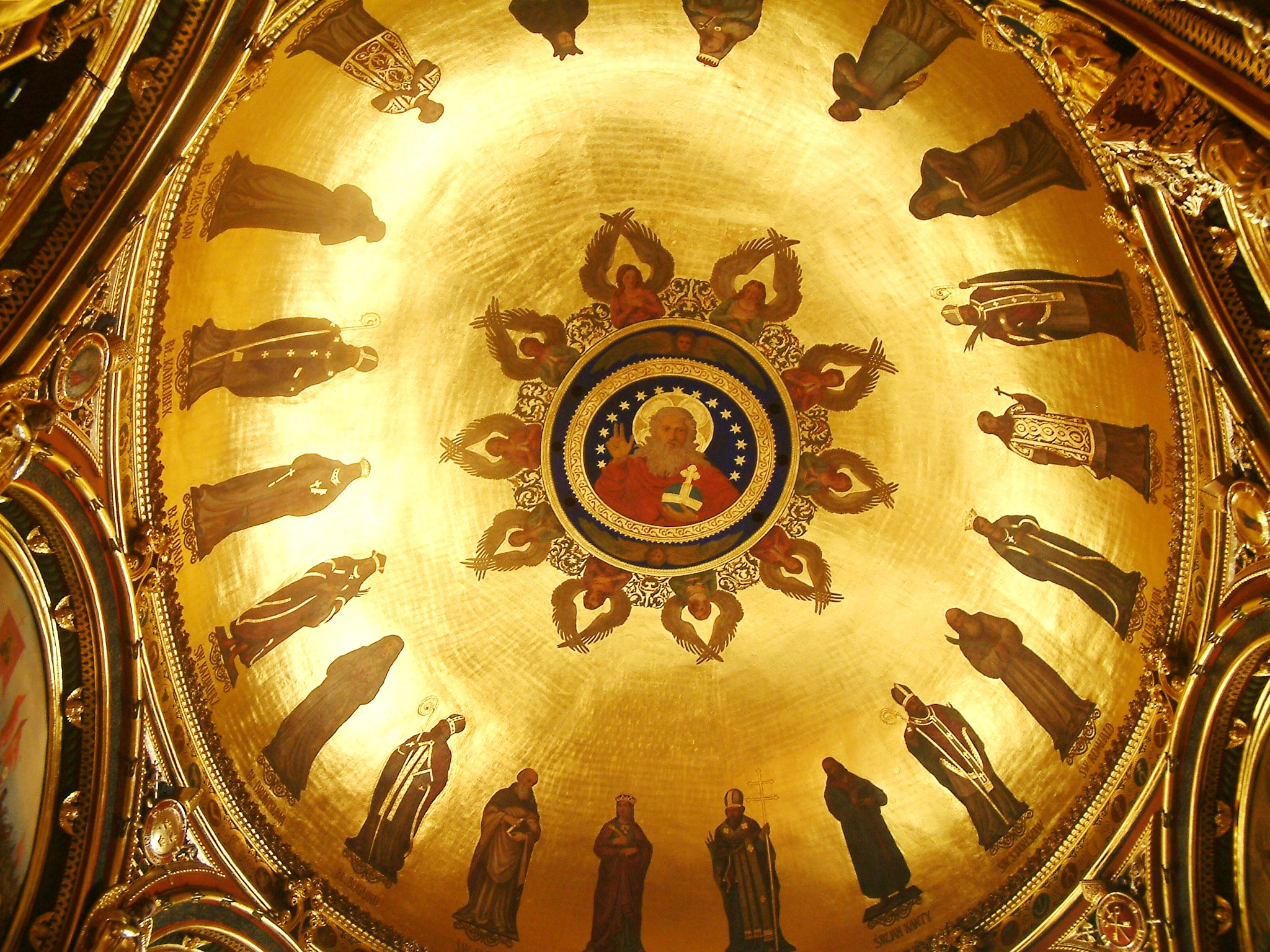 Dome of Golden Chapel in Poznań Cathedral